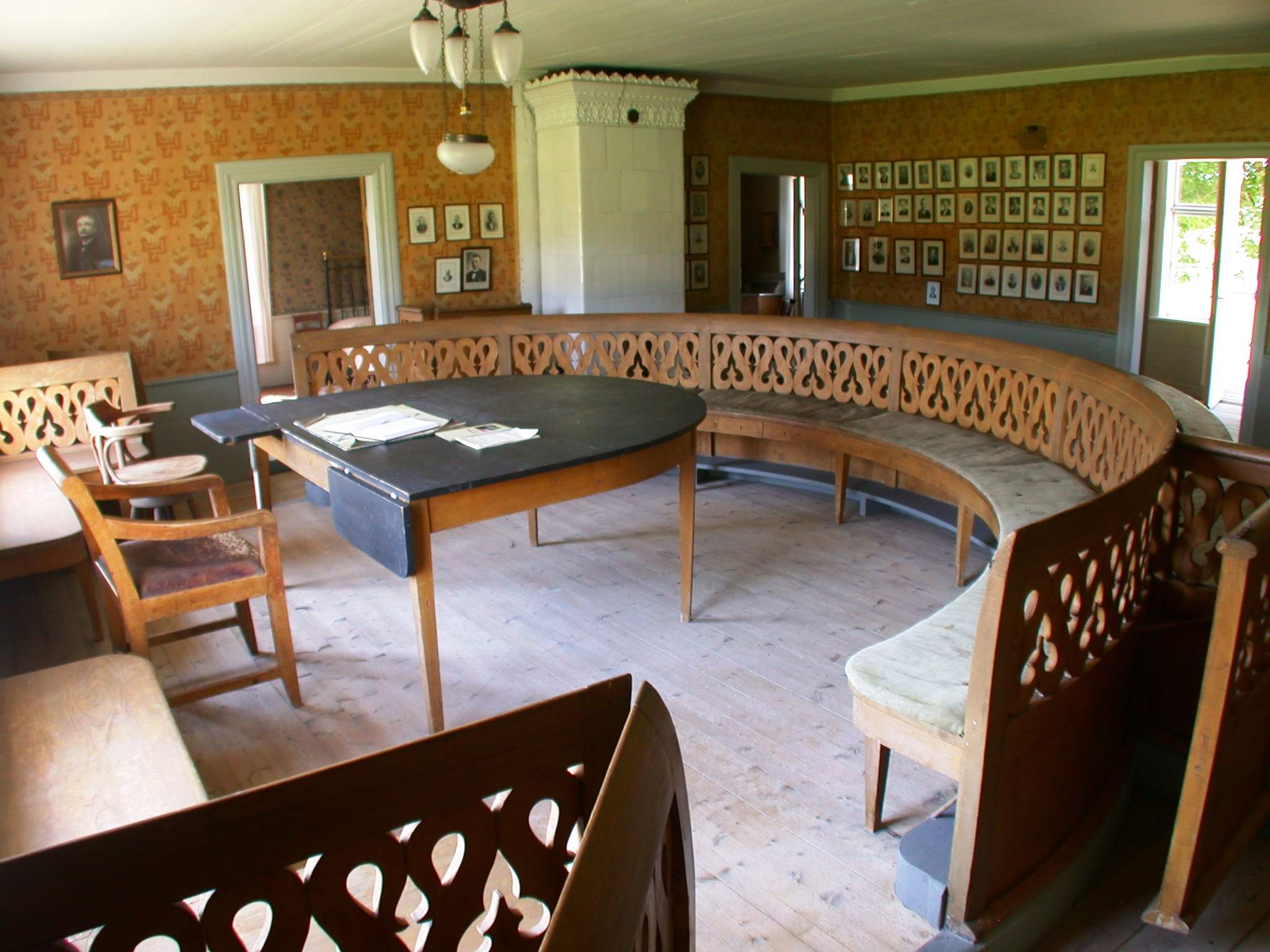 Långelanda court house, Årjäng, Sweden